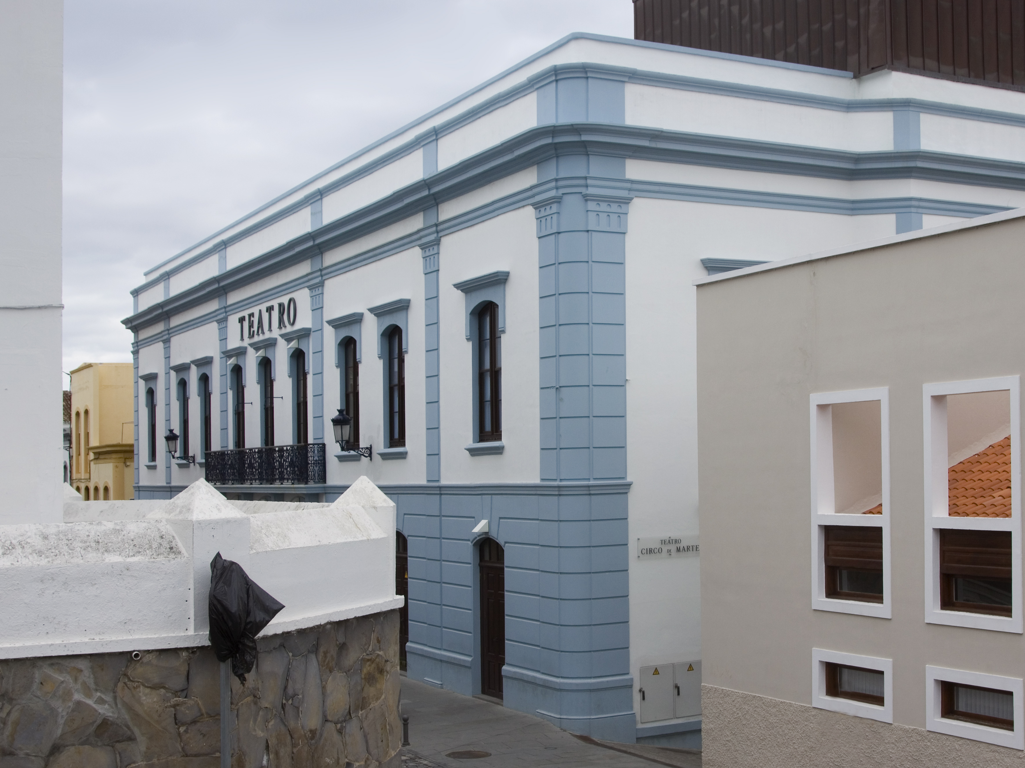 Santa Cruz de La Palma (Canary Islands), Teatro Circo de Marte (Theatre)